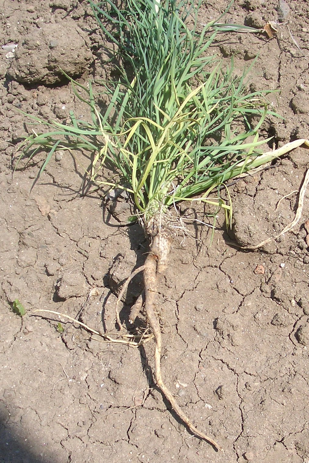 Laserpitium siler